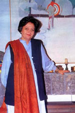 already published in a magzene Hamsafar